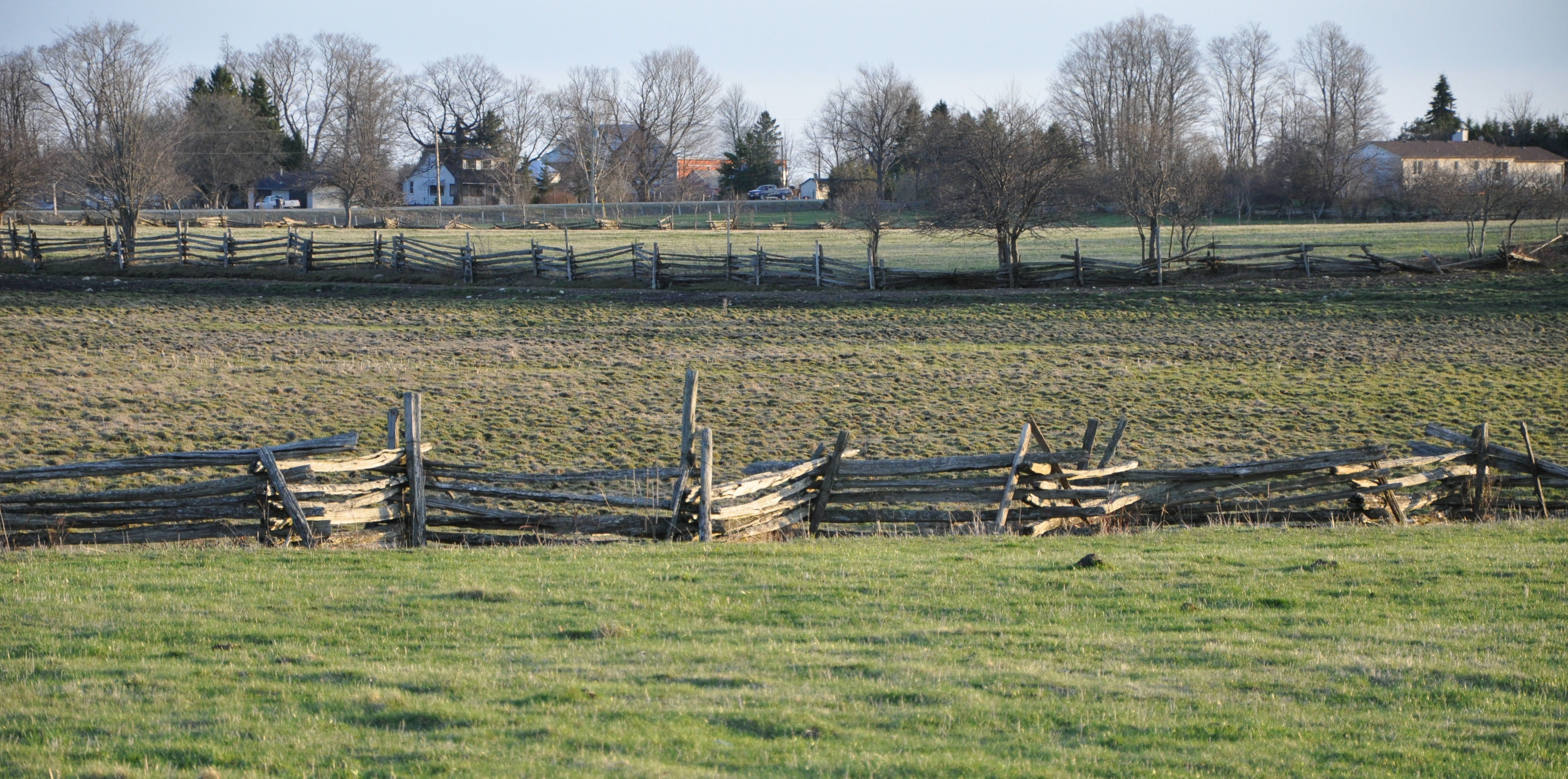 Split rail fences, also known as "snake" fences, were used by 19th-century settlers in southern Grey County, Ontario, where supplies of cedar logs from wetlands was plentiful. This type of construction needed no bailing wire, nails or other fasteners. The stability of the design, no metal to corrode and the natural rot-resistance of the cedar rails resulted in long-lasting fences. Some fences on farms near Flesherton, Ontario date back to the 19th century.